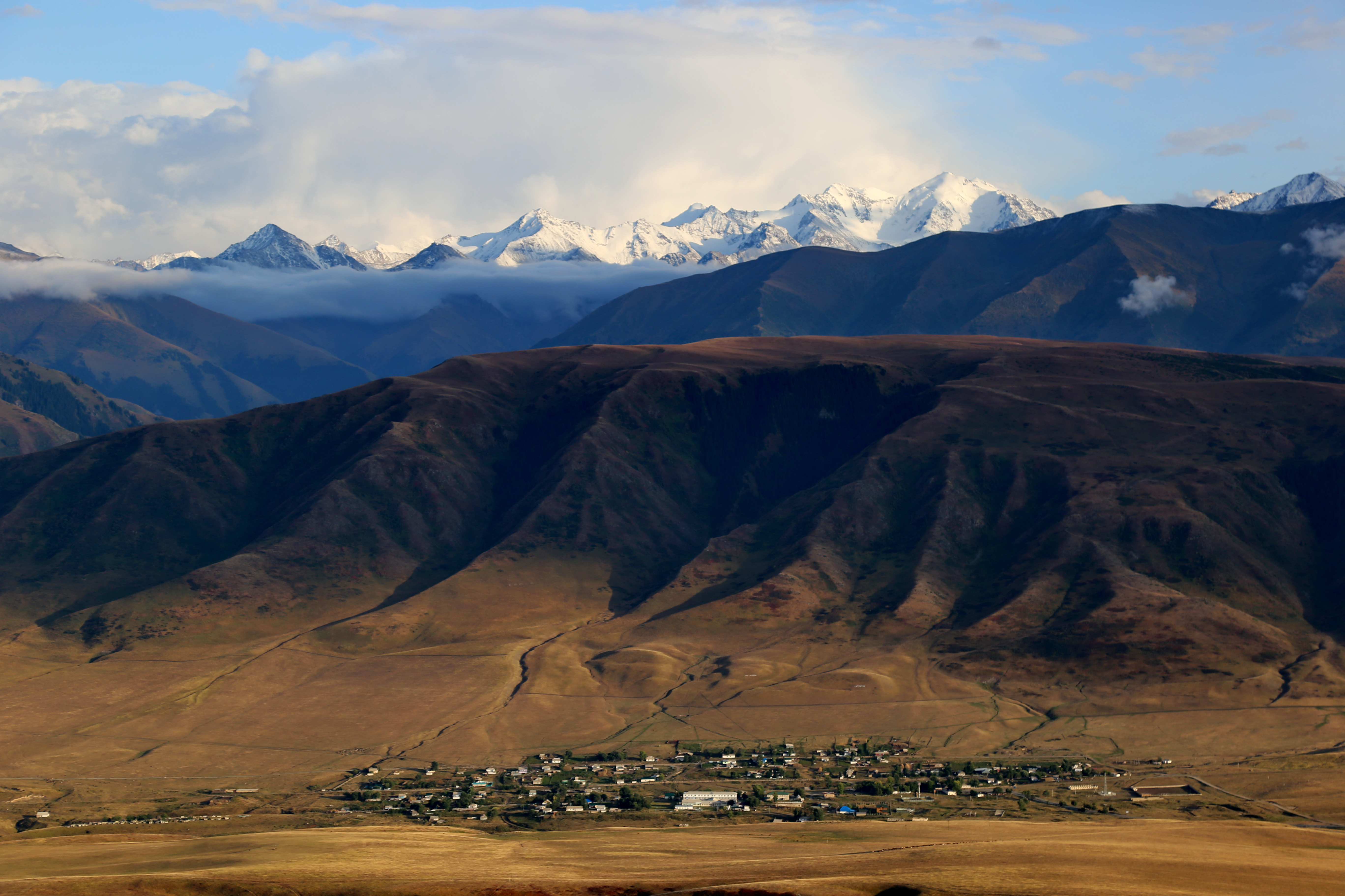 Amanbokter Village